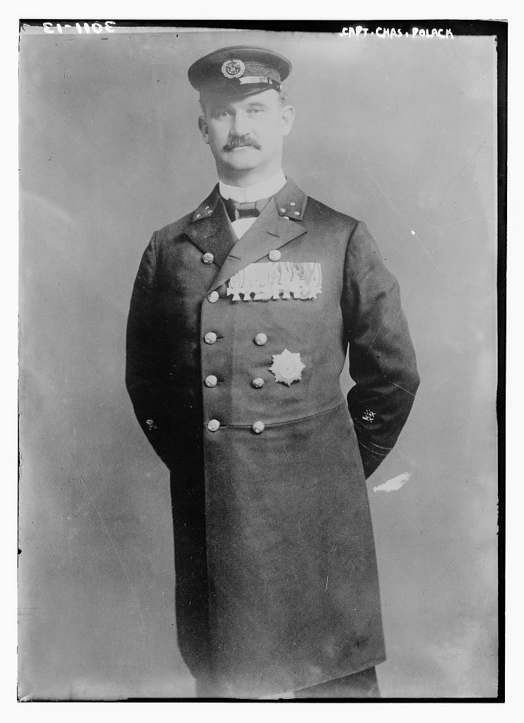 Capt. Charles Polack.